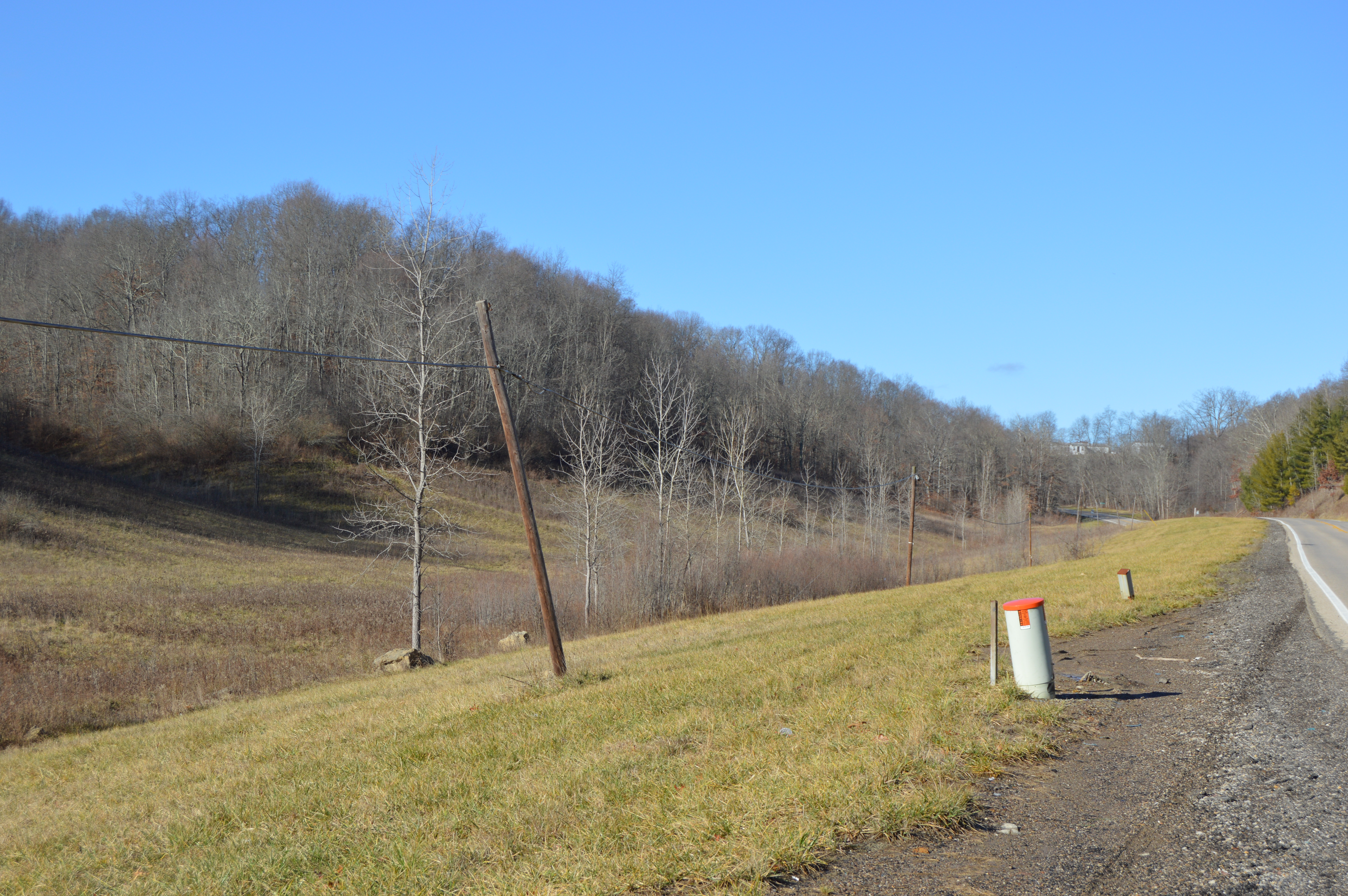 Open countryside on the southern side of State Route 155 between Shawnee and Hemlock in Salt Lick Township, Perry County, Ohio, United States.